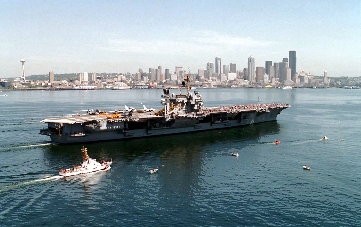 An aerial starboard side view of the aircraft carrier USS CONSTELLATION (CV 64) as it arrives at Seattle, WA escorted by a US Coast Guard ISLAND CLASS (WPB) PATROL CRAFT and several other small boats. CV 64 is part of the city's annual Seafair Festival and is host to over 2,000 guest, who sailed from Everett to Seattle Washington aboard the Aircraft carrier.Location: SEATTLE, WASHINGTON (WA) UNITED STATES OF AMERICA (USA)